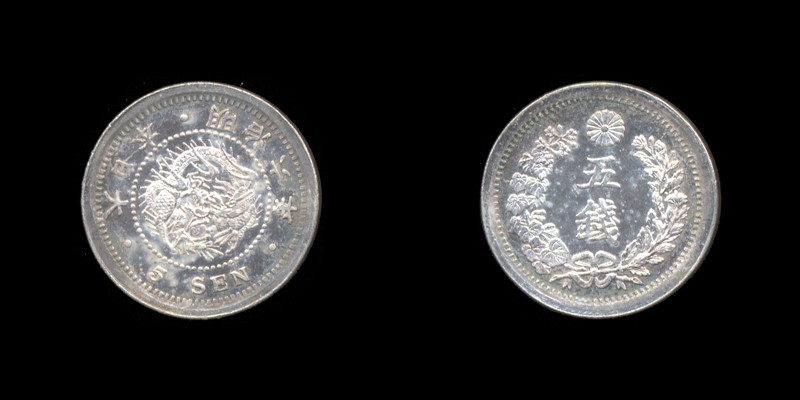 5sen-M6